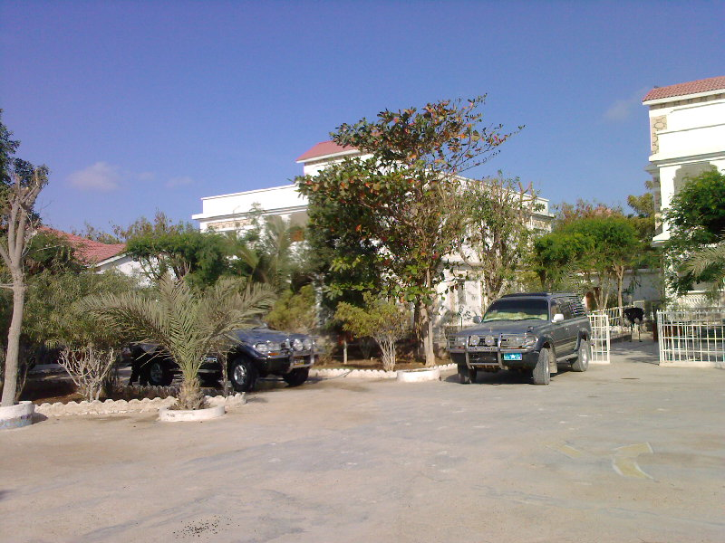 The International Village Hotel in Bosaso, Somalia.